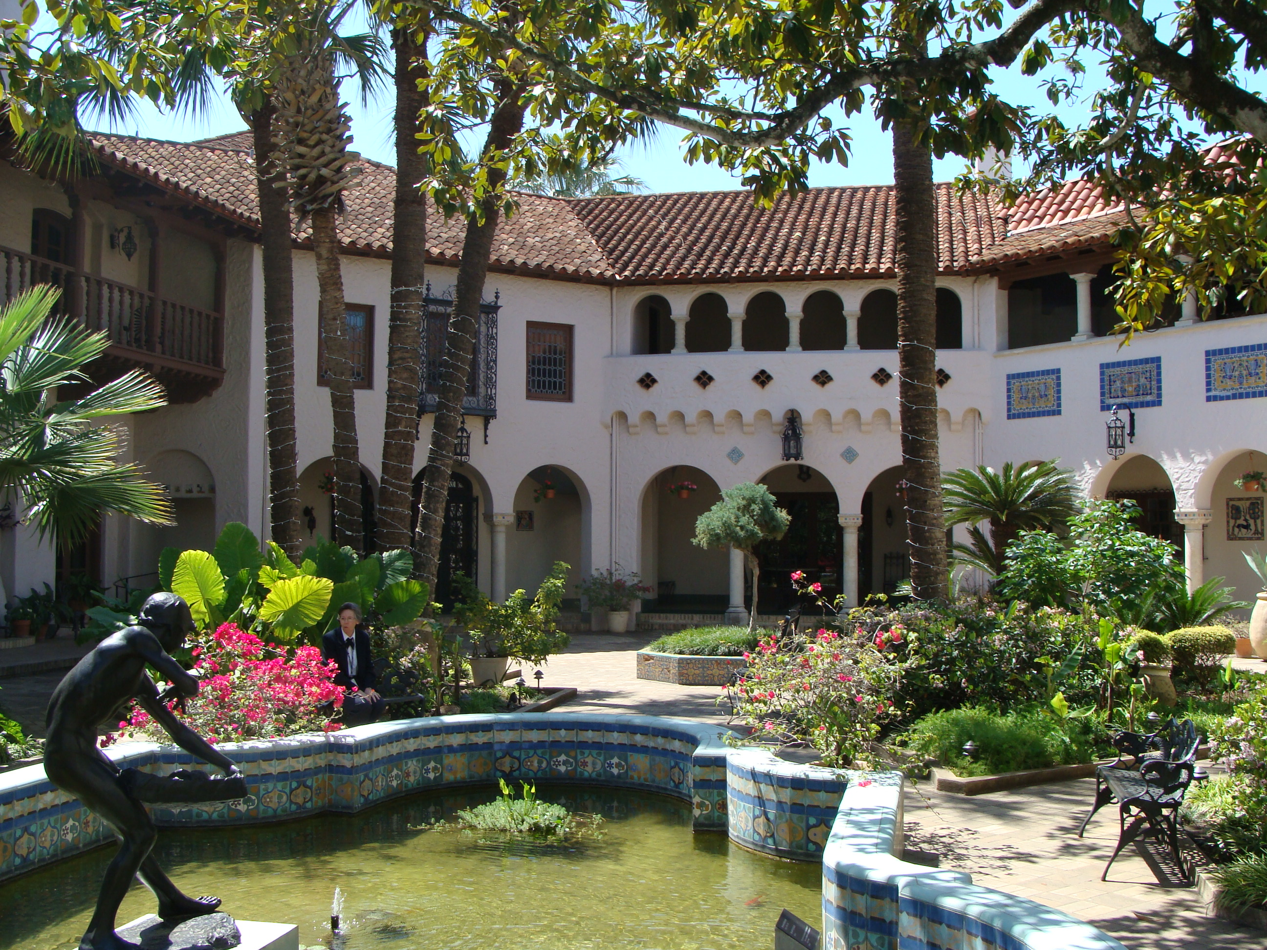 McNay Art Museum. courtyard. Commissioned in 1927. San Antonio, Texas.